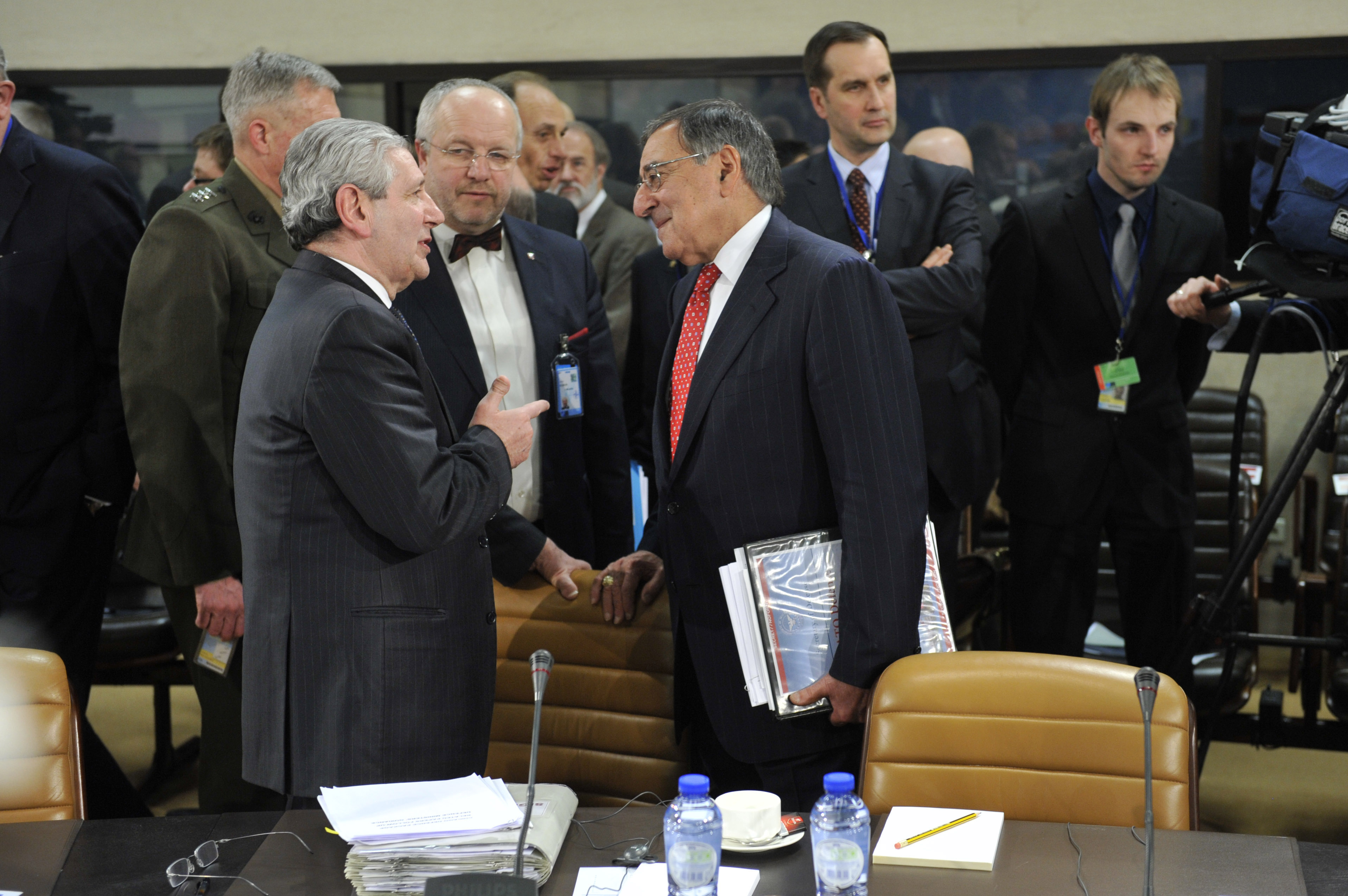 Secretary of Defense Leon E. Panetta, right, listens to Italy's Minister of Defense Giampaolo Di Paola, left, as the two leaders attend meetings at the NATO Defense Ministerial meetings in Brussels, Belgium, on Feb. 21, 2013. The current International Security Assistance Force mission and the follow-on NATO mission in Afghanistan are the central topic of group meetings and Panetta’s own one-on-one discussions with allied and partner ministers here this week.